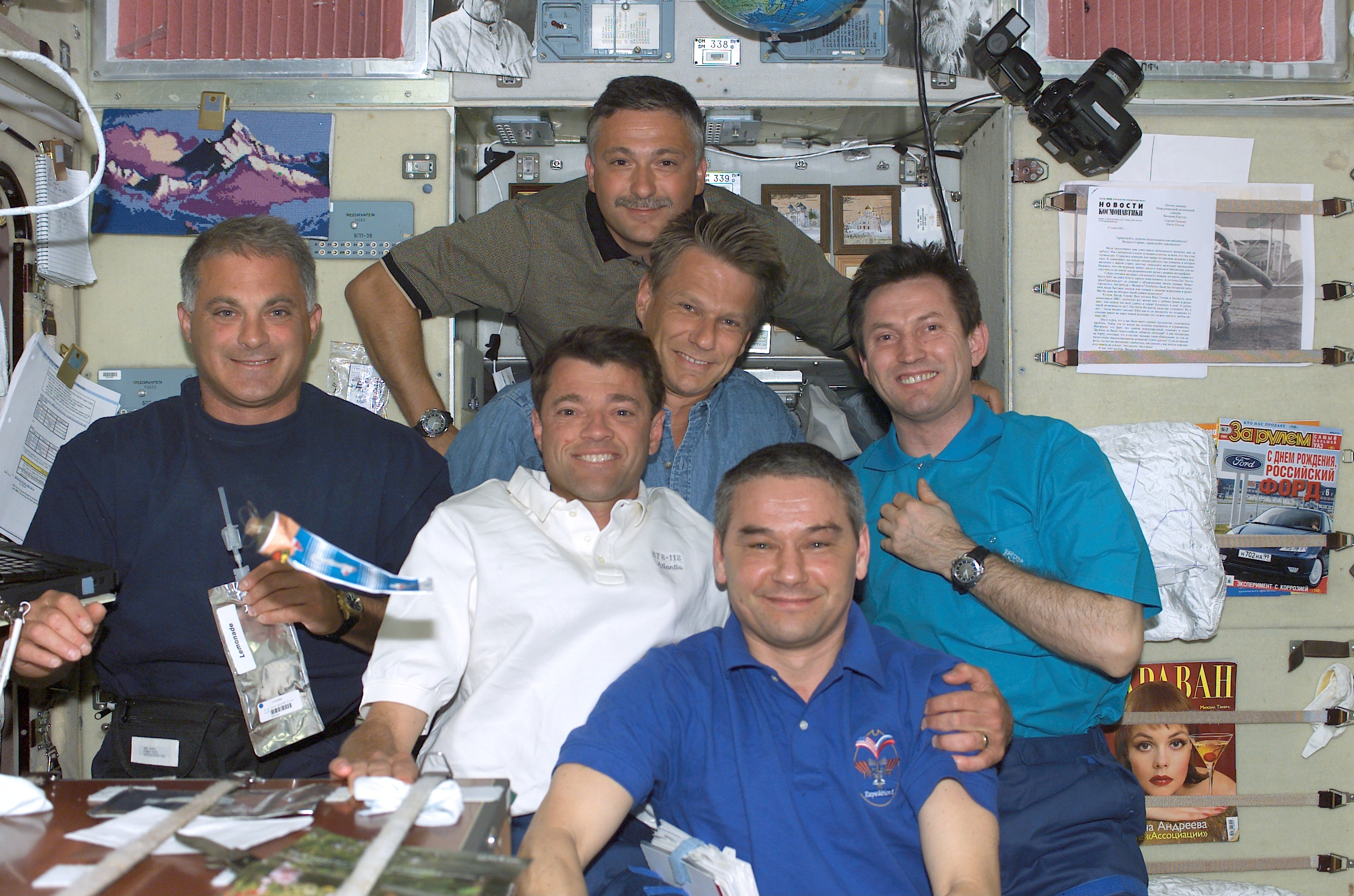 he STS-112 and Expedition Five crewmembers share a meal in the Zvezda Service Module on the International Space Station (ISS). Pictured, from the left (foreground), are astronauts David A. Wolf, STS-112 mission specialist; Jeffrey S. Ashby, STS-112 mission commander; and cosmonaut Valery G. Korzun, Expedition Five mission commander. Pictured, from the left (back row), are cosmonaut Fyodor N. Yurchikhin; astronaut Piers J. Sellers, both STS-112 mission specialists; and cosmonaut Sergei Y. Treschev, Expedition Five flight engineer. Korzun, Treschev and Yurchikhin represent Rosaviakosmos.